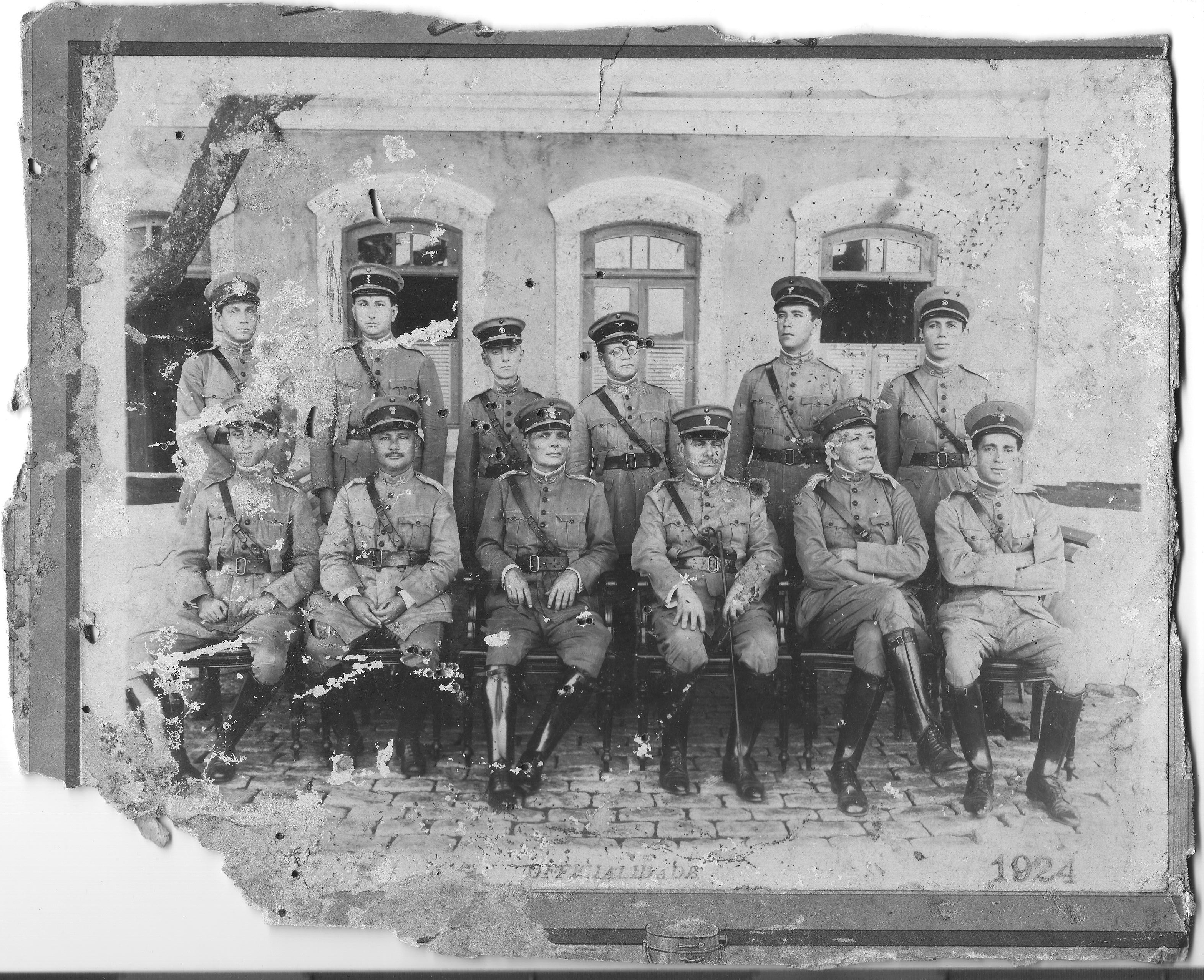 Exército Brasileiro - Officialidade 1924